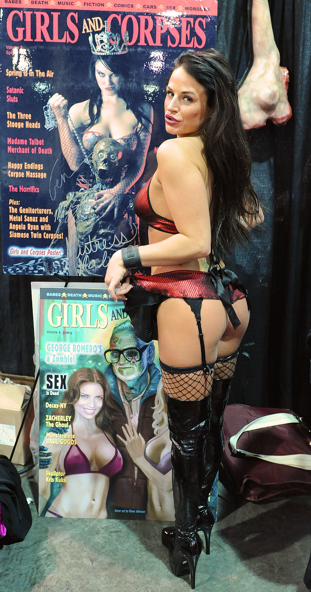 Brooke Belle at AVN Adult Entertainment Expo 2011